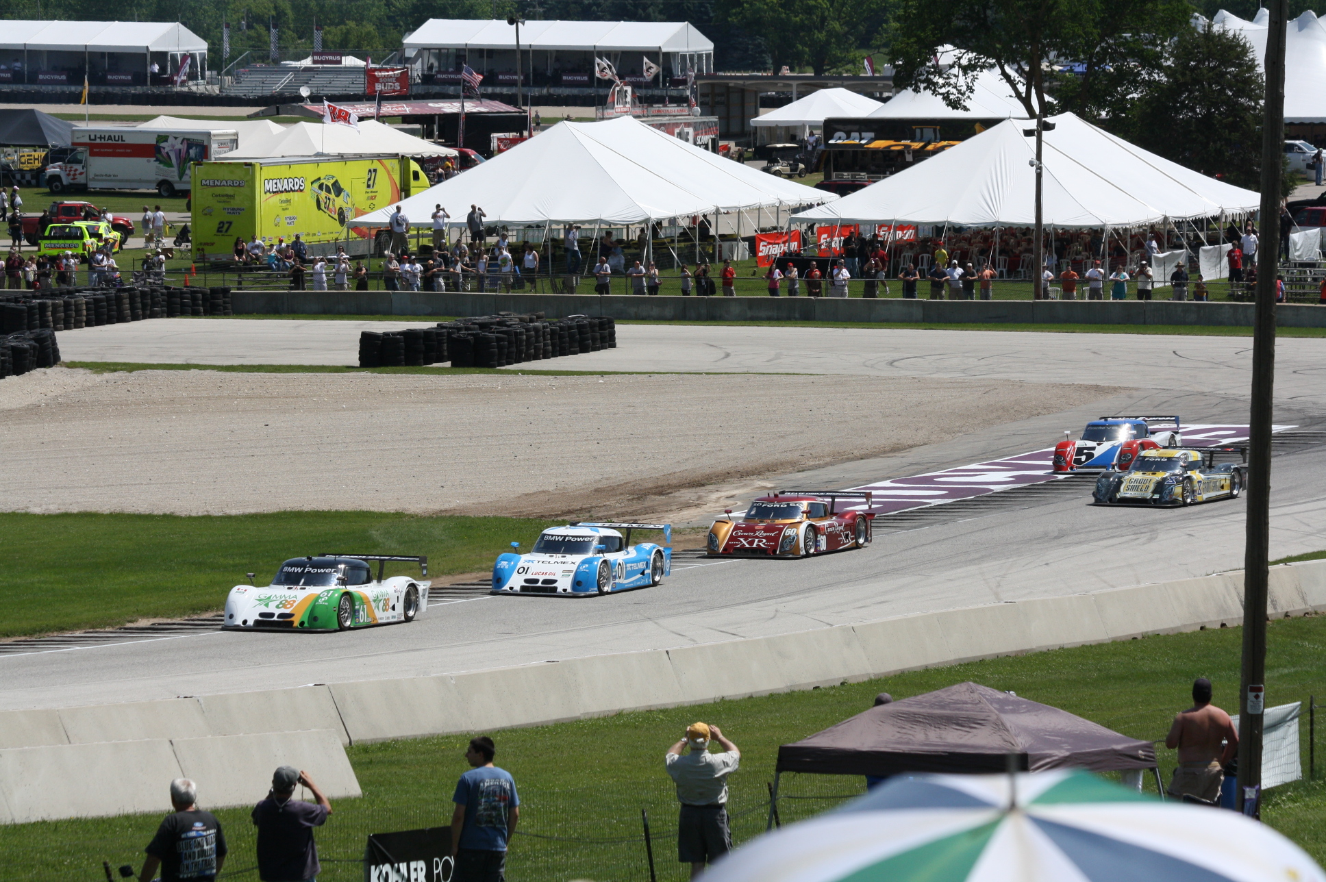 Part of the field of Daytona Prototype sports cars at Road America.